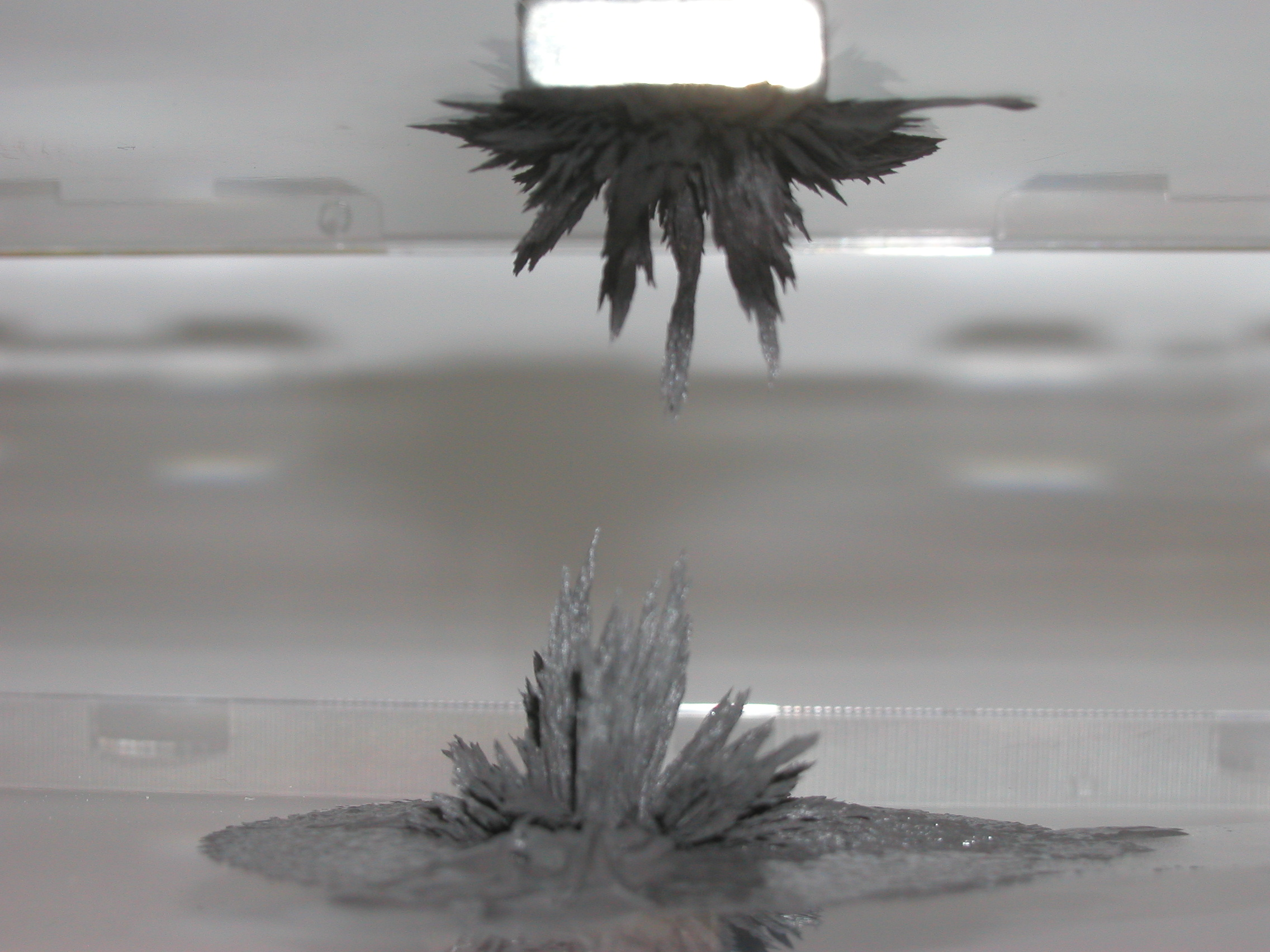 MRF between two solenoids